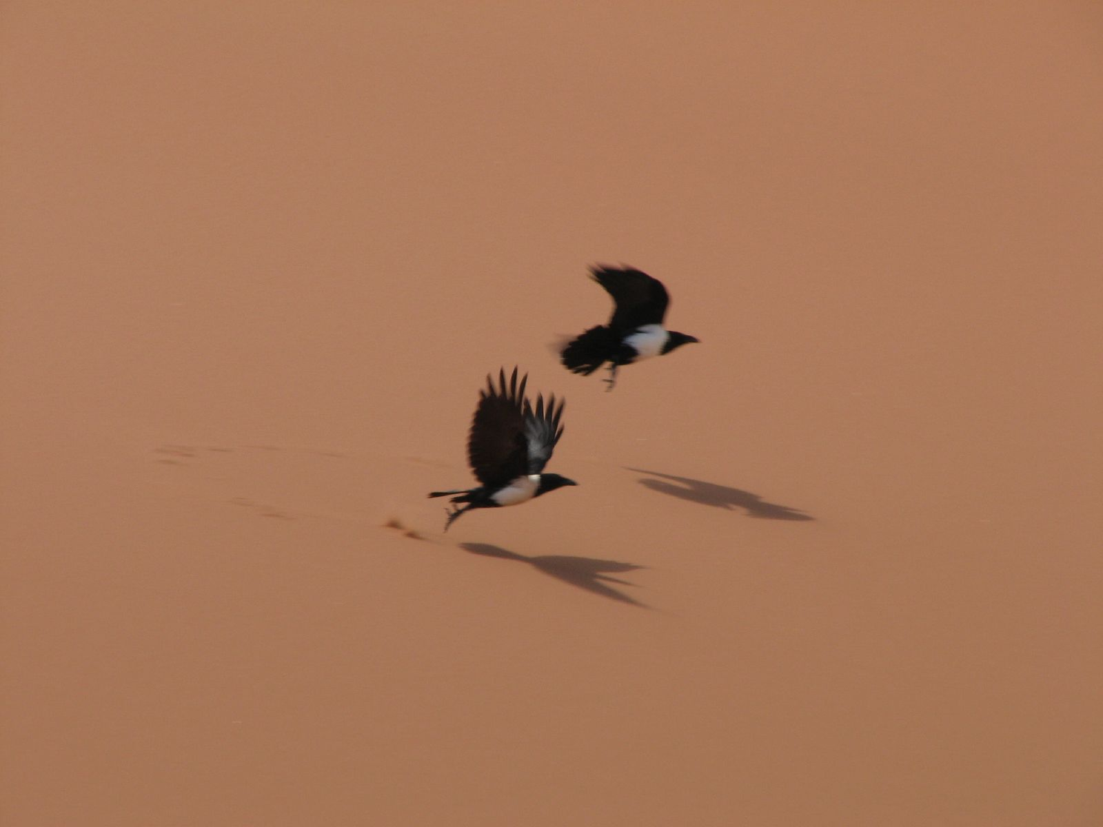 Pied Crows taking off from one of the giant sand dunes of Namibia. Corvus albus